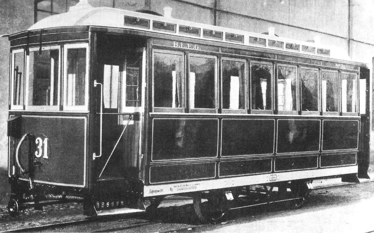 Steam tram trailer No. 31, Brno, Moravia (now Czech Republic)